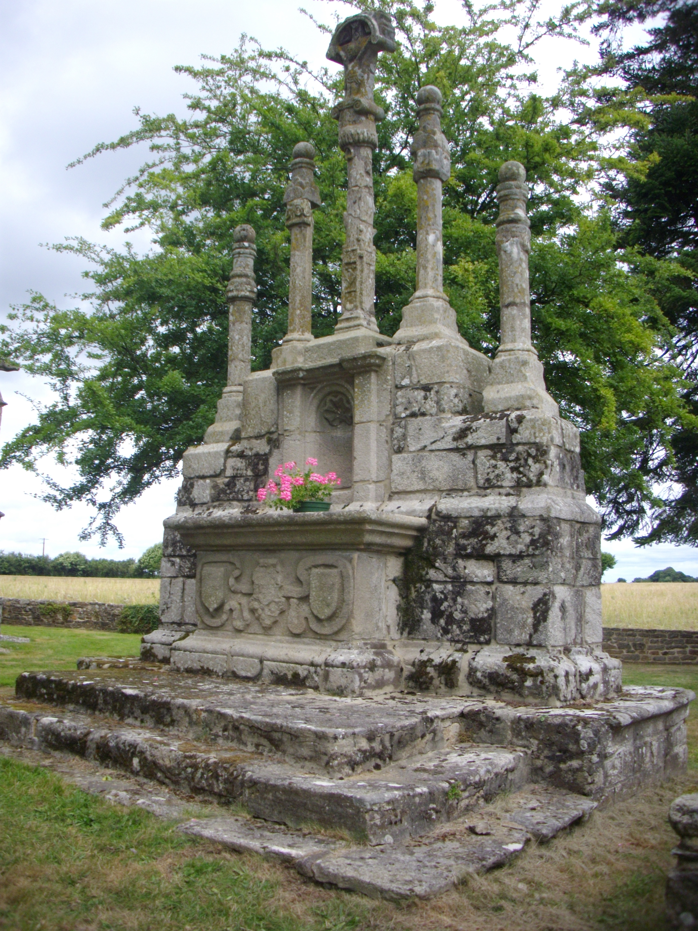 Calvary of Saint Susanna chapel of Sérent (Morbihan, France) .